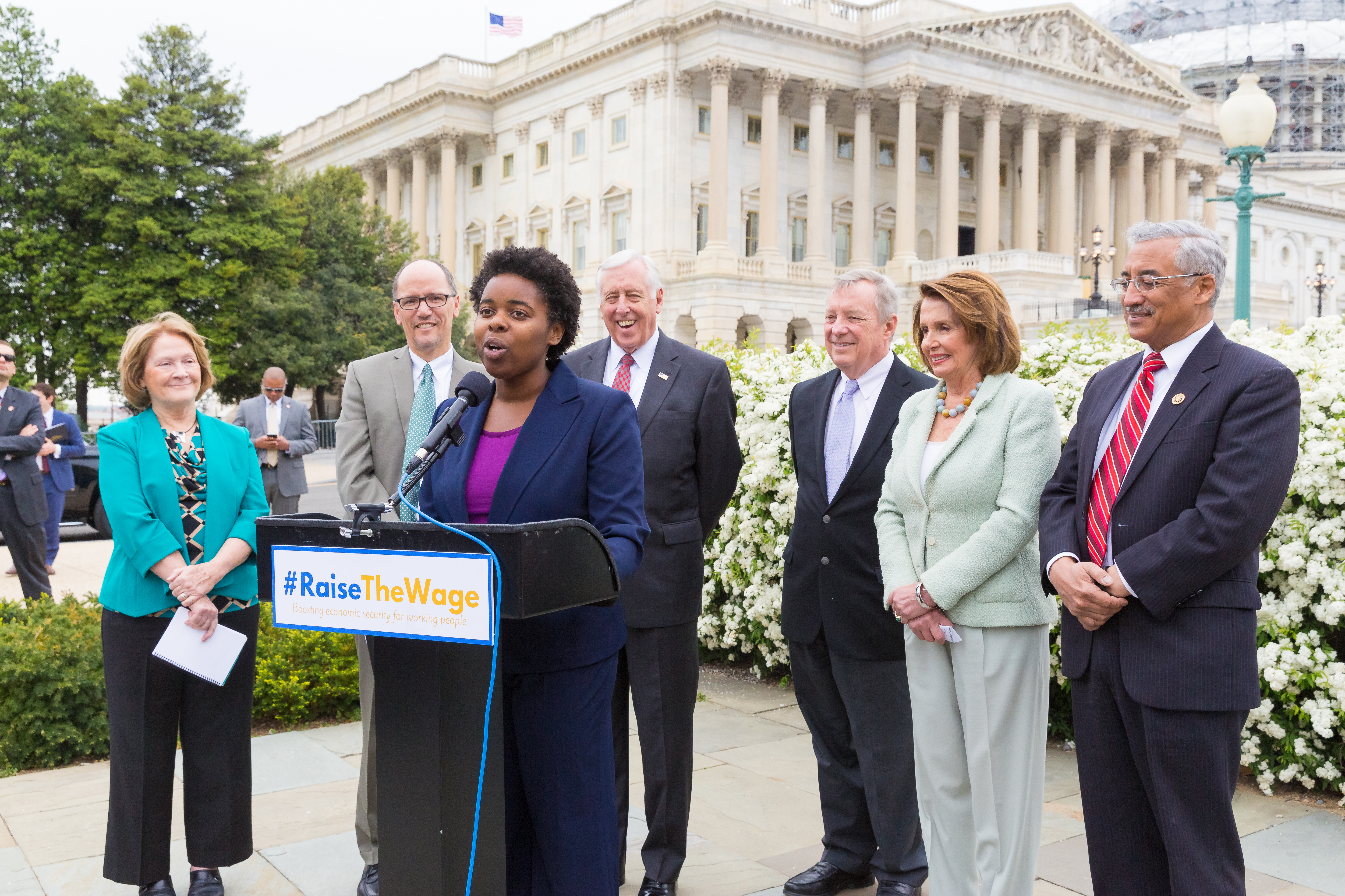 21th April 2016 - Washington, D.C. - U.S. Secretary of Labor Thomas Perez participates in a press conference with congressional leaders to discuss the importance of raising the federal minimum wage and urging Congress to pass the Murray-Scott Raise the Wage legislation. Jessica Wynter Martin, Worker (Restaurant Opportunities Center United) Official Department of Labor Photograph*** Photographs taken by the federal government are generally part of the public domain and may be used, copied and distributed without permission. Unless otherwise noted, photos posted here may be used without the prior permission of the U.S. Department of Labor. Such materials, however, may not be used in a manner that imply any official affiliation with or endorsement of your company, website or publication. Photo Credit: Department of Labor Shawn T Moore